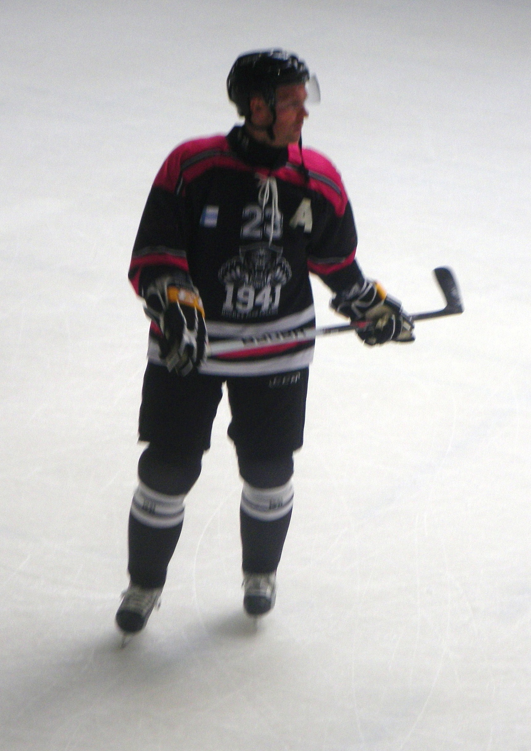 Finnish ice hockey player with HC Lugano.